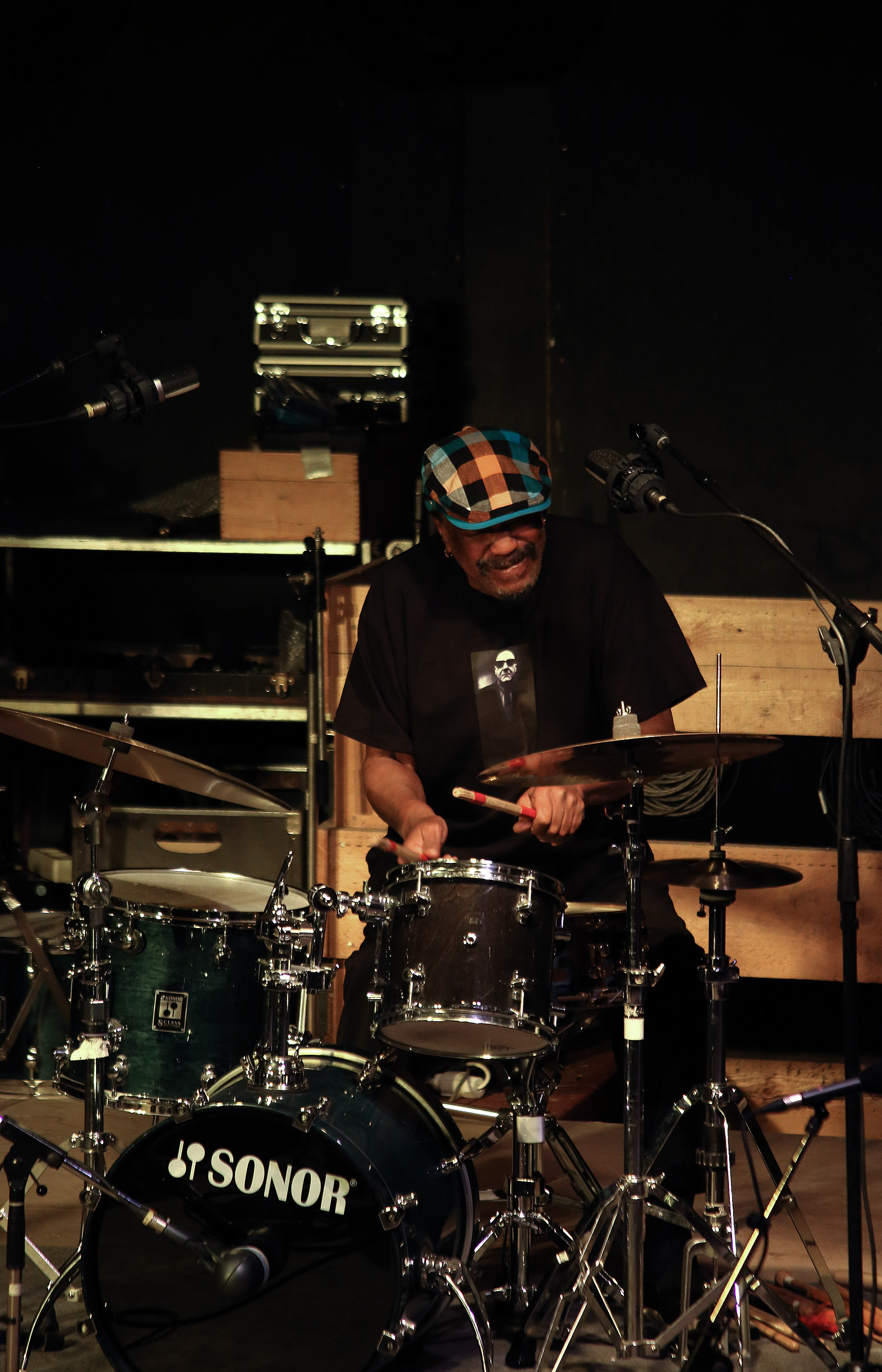 Dangerous Musics - Jon Corbett (tp.), Nick Stephens (b.), Louis Moholo (dr.) - Ulrichsberger Kaleidophon (Ulrichsberg, Upper Austria)